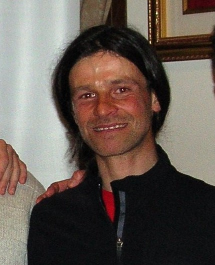 Roberto Piantoni